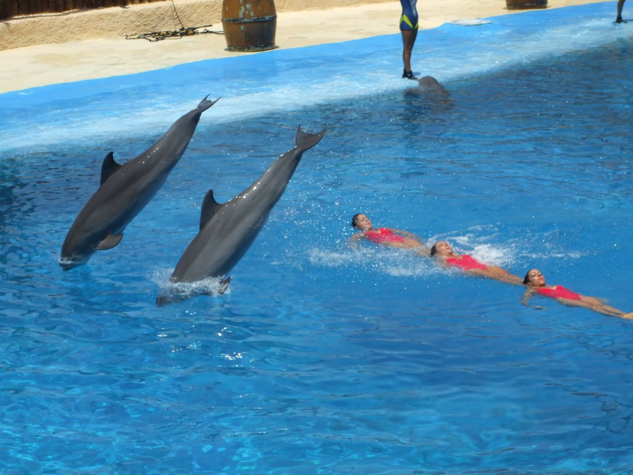 MundoMar